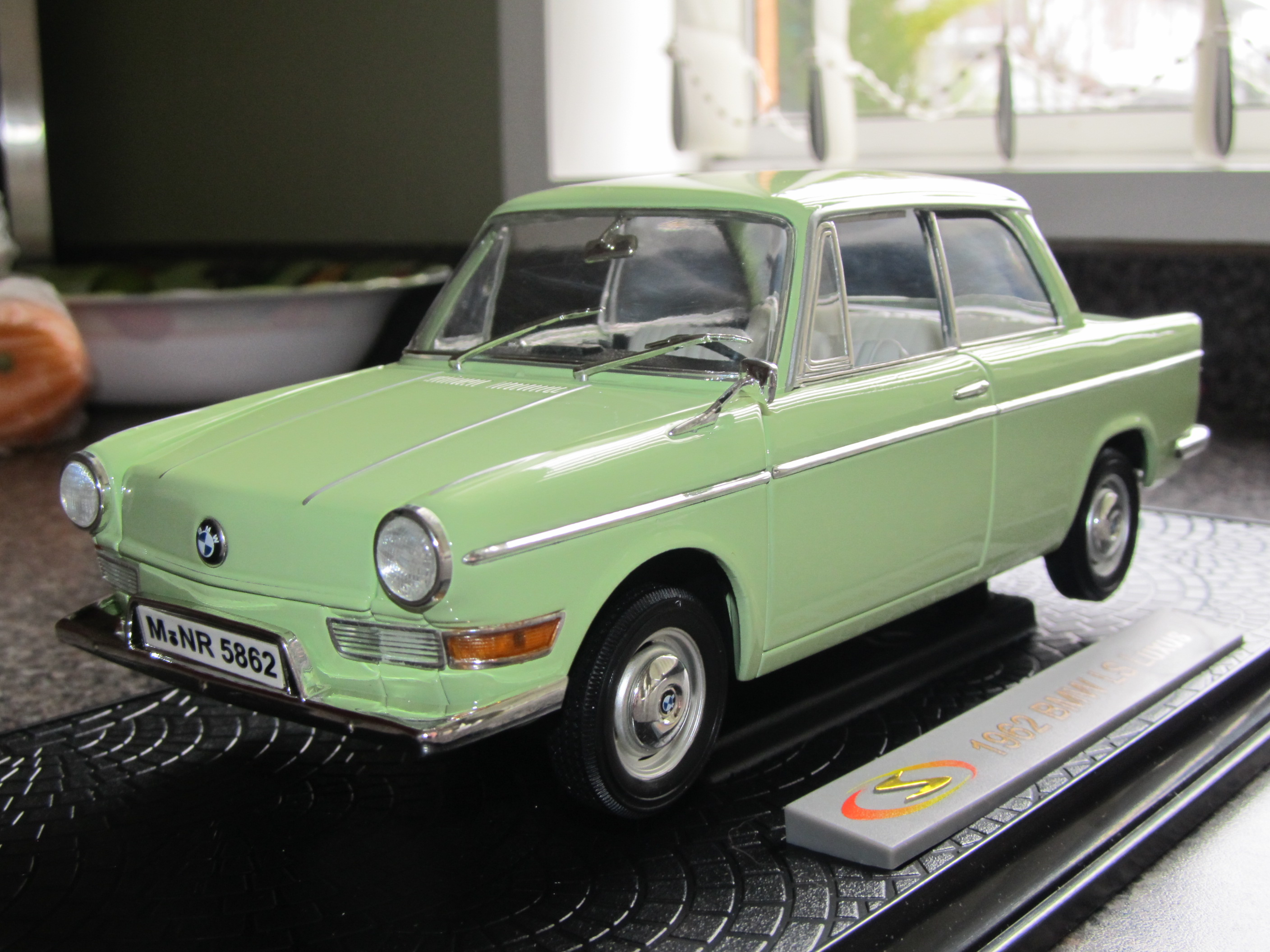 I was browsing the stalls at my local market this morning, and came across this utterly gorgeous 1:18 scale BMW, for sale at a model specialist's stall for $20! For such a detailed and beautifully finished model I thought it was an absolute bargain, so I just had to get it. The bonnet, boot lid and doors all open, and it is finished in a superb mint green colour. The engine - of note that this is rear-engined - is incredibly well detailed, and I could even read the numbers on the speedo and see the tiny BMW badge on the steering wheel!